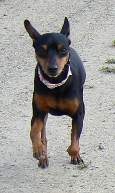 This is a Prague Ratter running